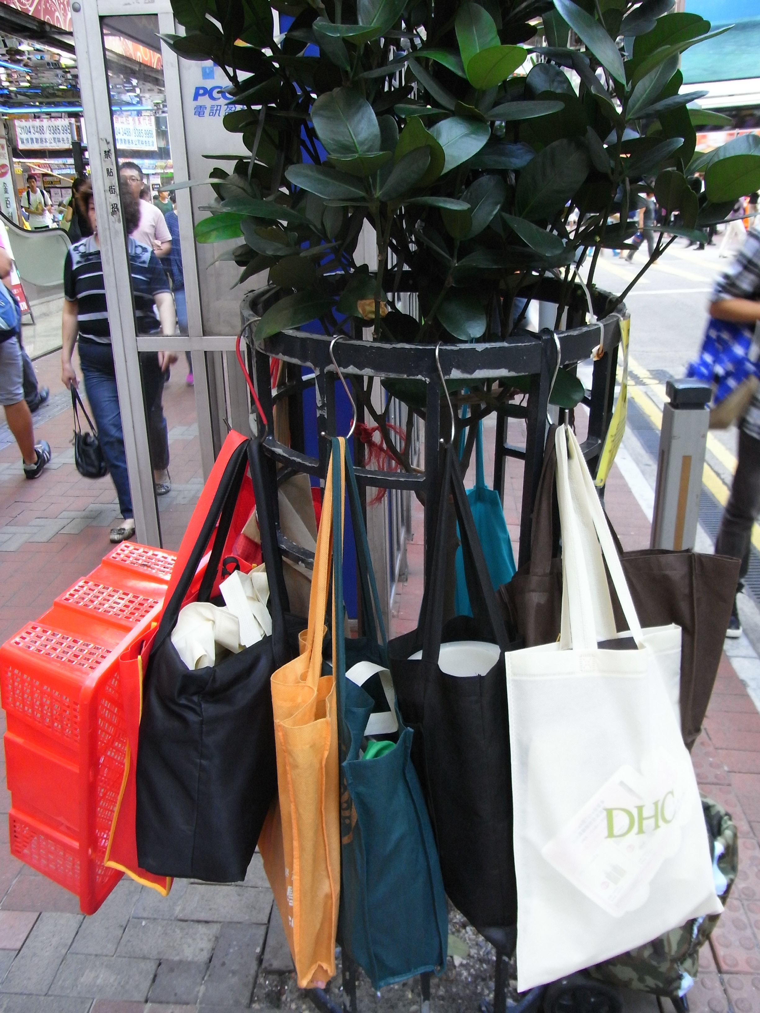 銅鑼灣 Causeway Bay, Hong Kong